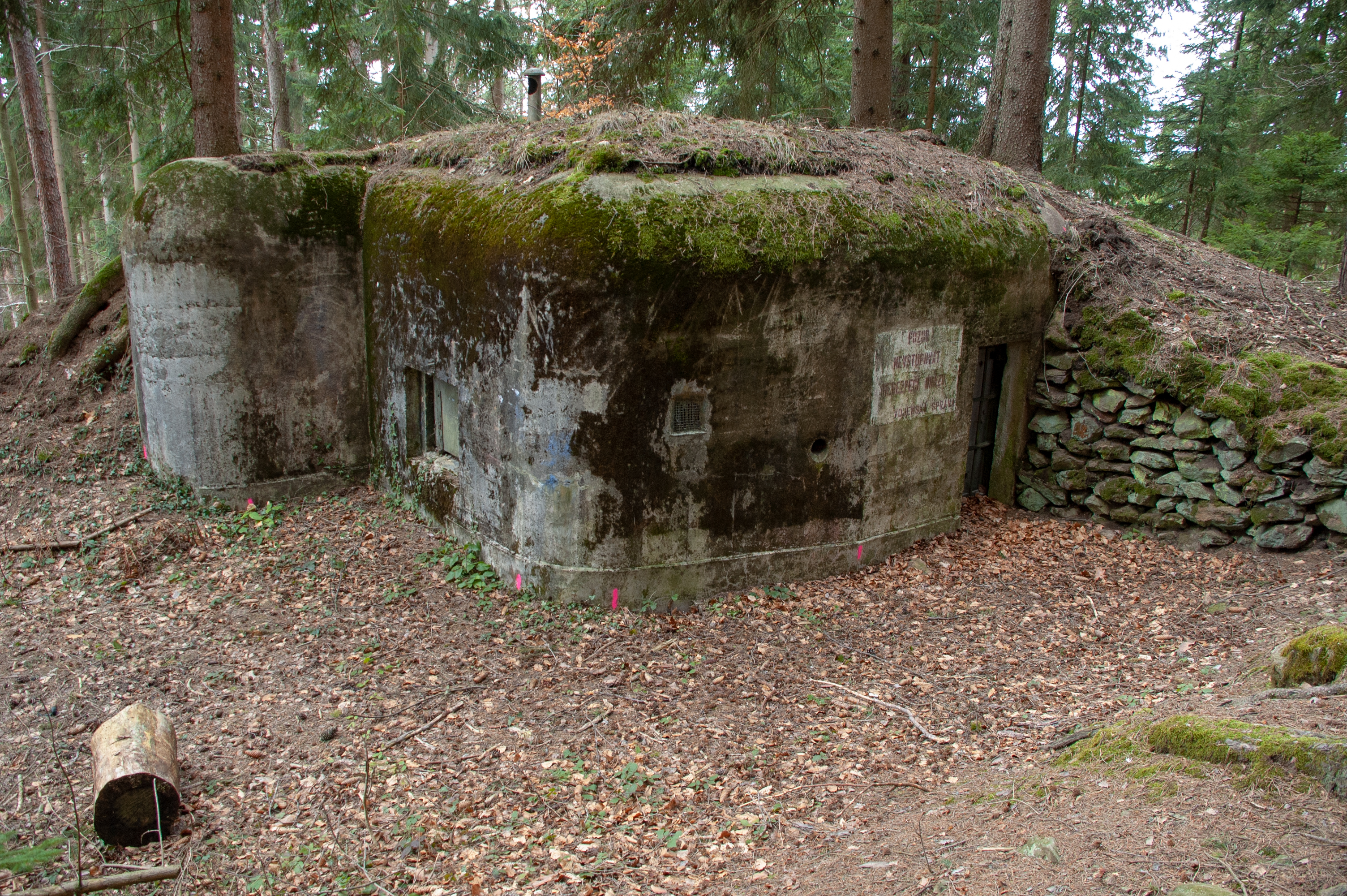 This image was created as a part of Editaton Prachatice (Czech).